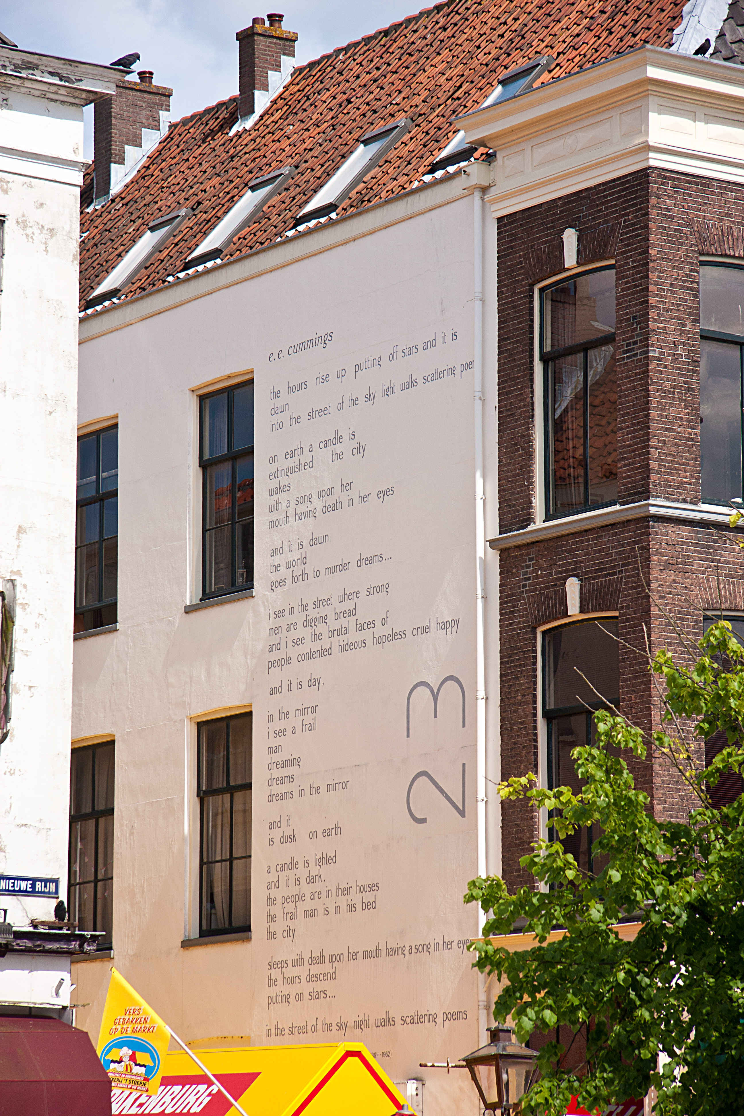 A wall poem in Leiden, the Netherlands, in English, by e. e. cummings